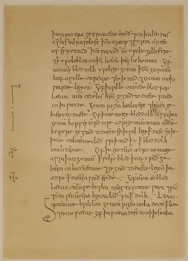 A facsimile of a page from Bald's Leechbook (British Library Royal MS 12 D XVII [1])